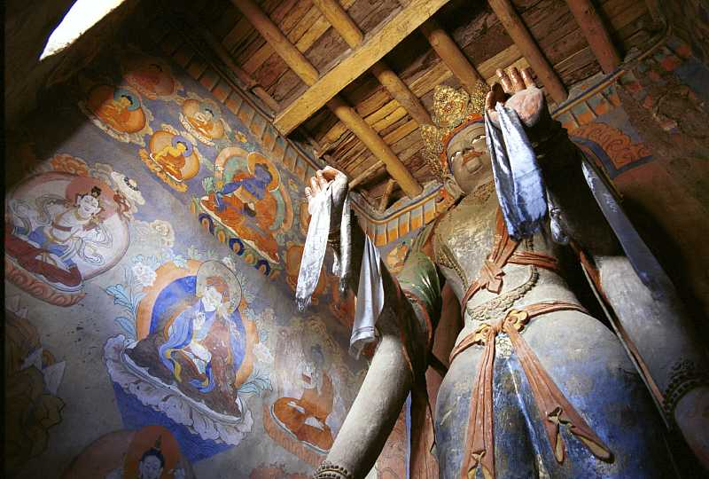 Image of KAN-NON(観音)of Alchi gompa(アルチ寺) in Ladakh.